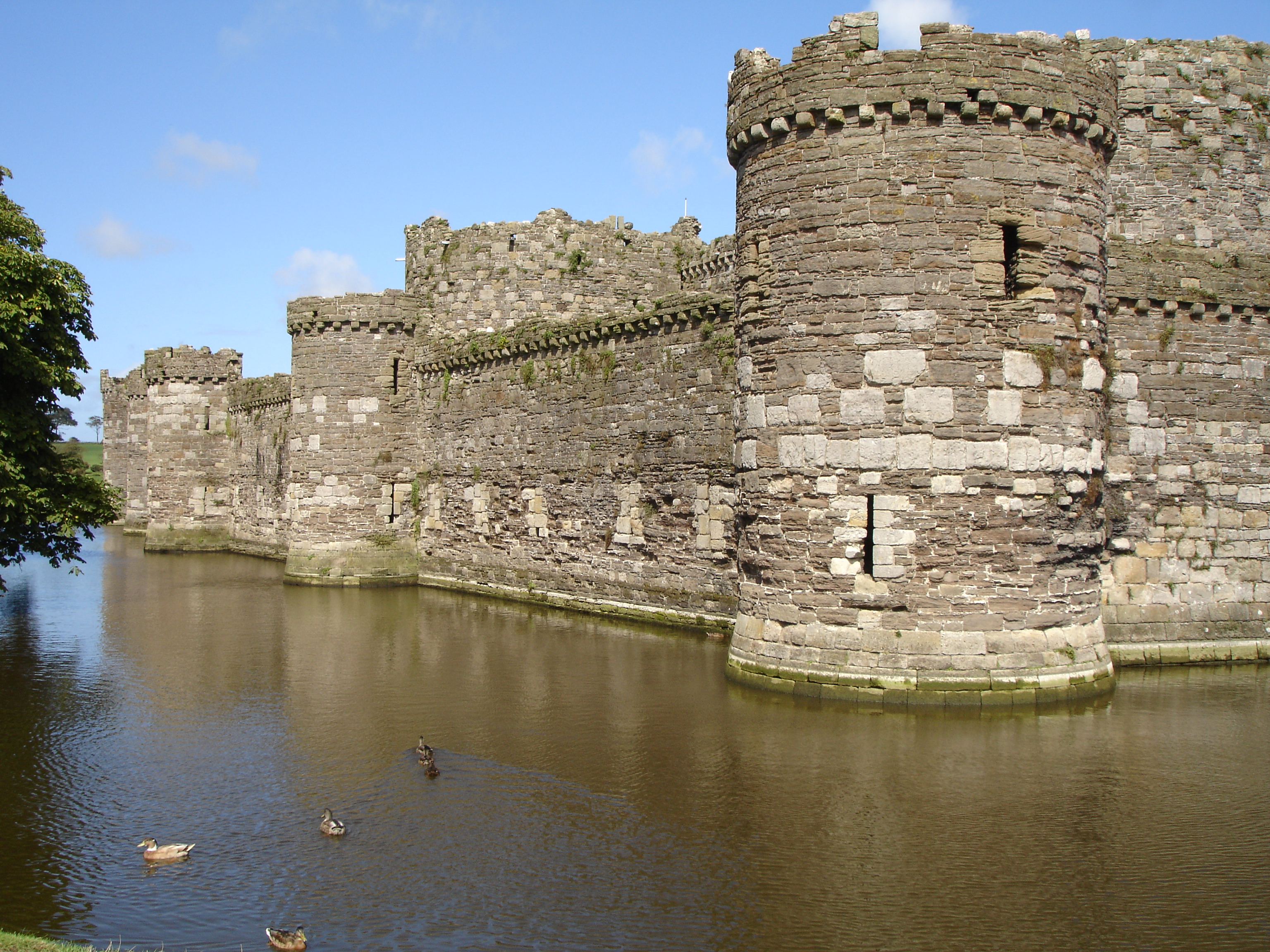 Beaumaris Castle -The 13th-century fortress commands the heights above the Menai Strait. Imagine yourself as a 13th century courtier as you cross the moat via the drawbridge and enter the interior of the great unfinished masterpiece, Beaumaris- then take an independent stroll through an ancient town ( Beaumaris Town) See set comments for [ ”Holyhead Overview” ]